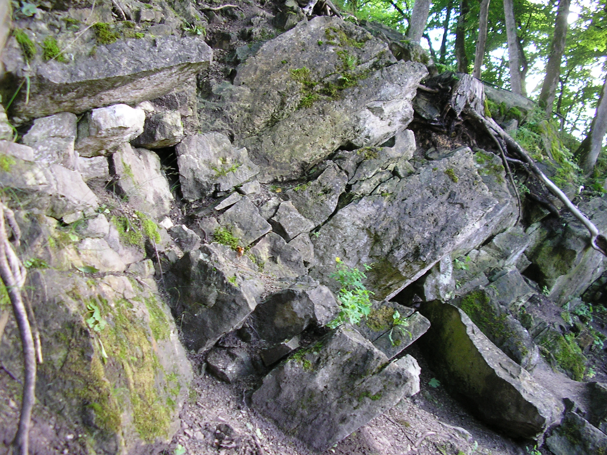 Dolomite rocks at Kaali main meteorite crater. They lay horizontally before the impact. The photo has been taken on 10 August 2005.